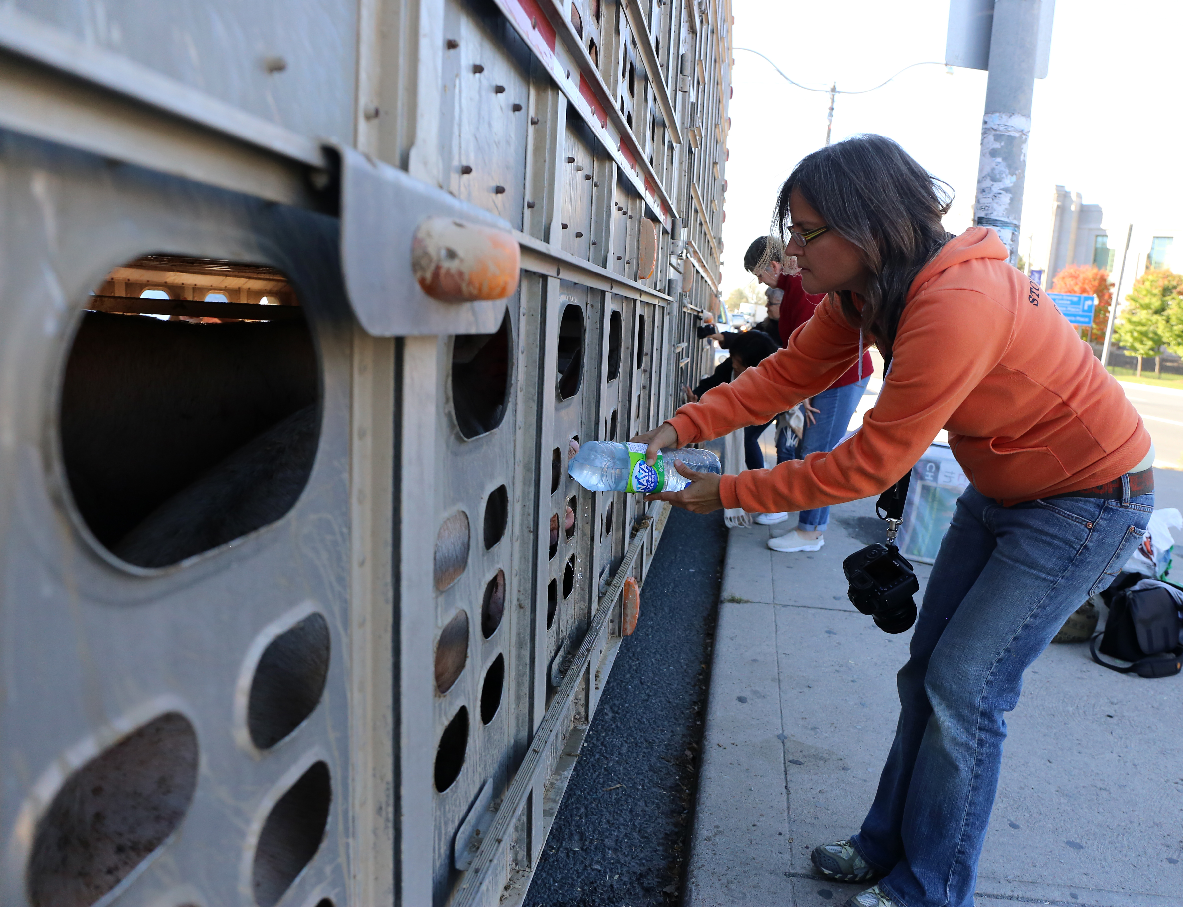 Pig in transport truck being given water by Toronto Pig Save activist, Anita Krajnc.